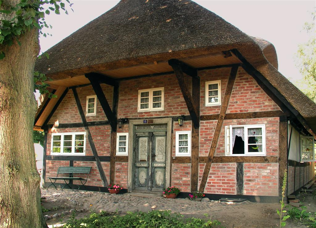 Wustrow, Mecklenburg, Germany: historical house, photo 2003